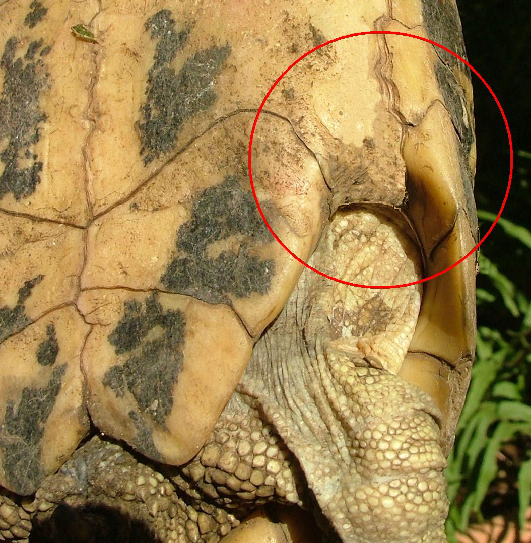 Testudo hermanni ssp. hercegovinensis'